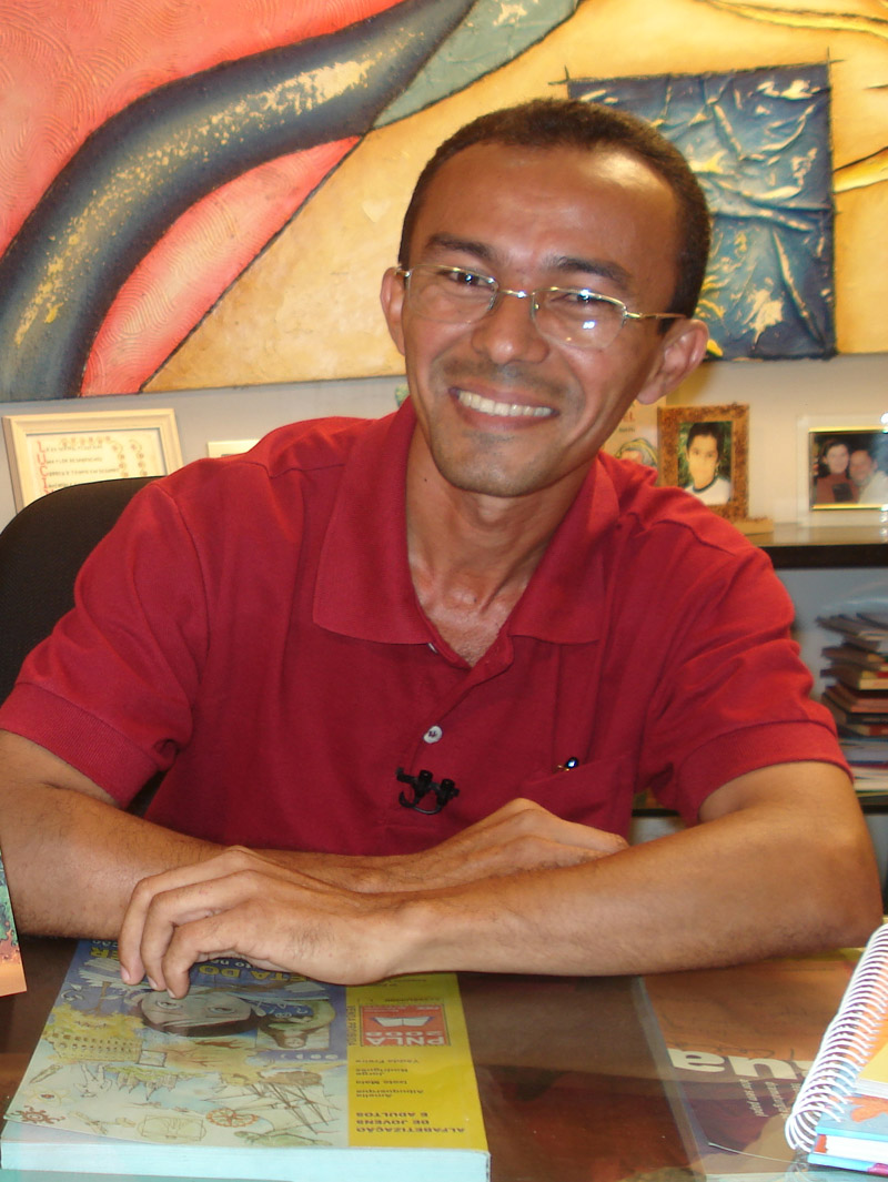 Brazilian Cordel writer: Rouxinol do Rinaré